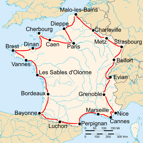 Route of the 1929 Tour de France, starting and finishing in Paris.